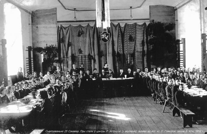 Celebrating of anniversary of Belarusian People’s Republic establishing in Bielarusian gymnasium in Vilna (now Vilnius). March 25th, 1935, Vilna (Vilnius).